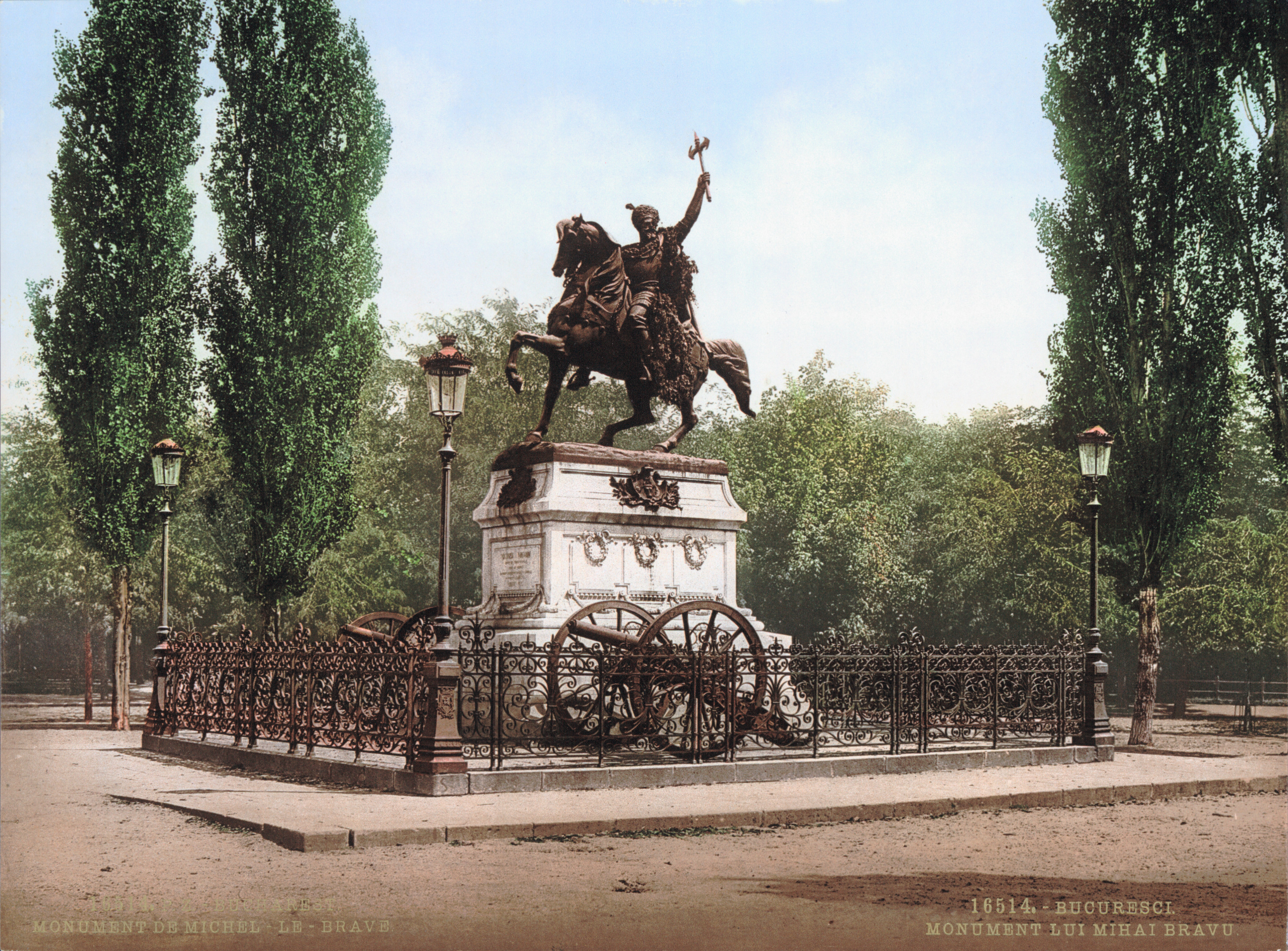 Statue of Mihai Viteazul, Bucharest, Roumania, photochrome picture Print no. "16514" Sculptor: Albert-Ernest Carrier-Belleuse (1824–1887) Alternative names Albert-Ernest Carrier-BelleuseDescriptionFrench sculptorDate of birth/death 12 June 1824 3 June 1887Location of birth/death Anizy-le-Château SèvresWork location France; BelgiumAuthority control : Q2143726 VIAF: 47019469 ISNI: 0000 0000 6628 9442 ULAN: 500017043 LCCN: nr99035839 WGA: CARRIER-BELLEUSE, Albert-Ernest WorldCat creator QS:P170,Q2143726